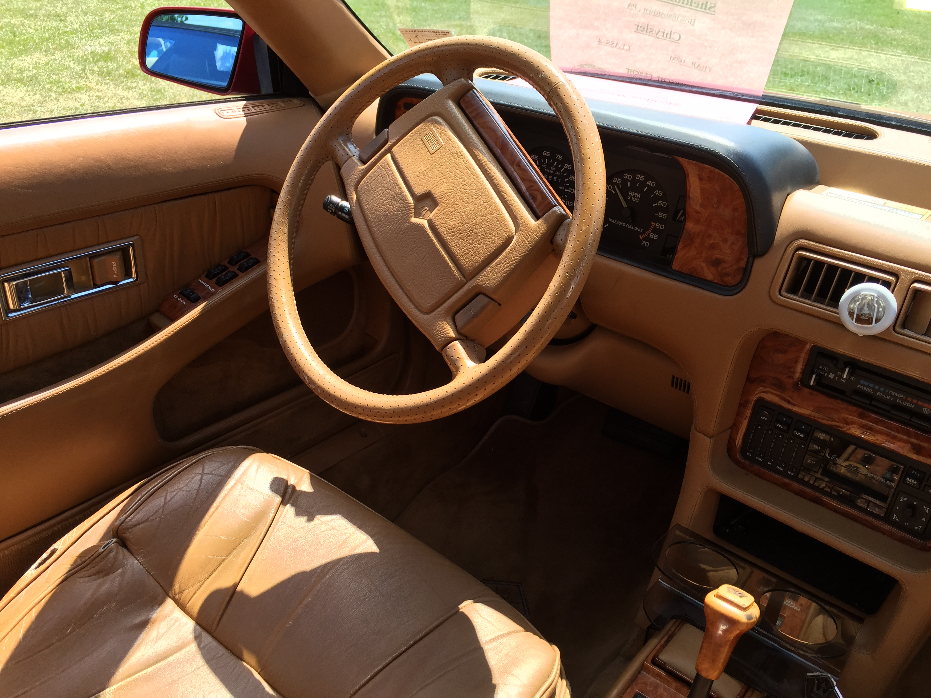 1990 Chrysler TC by Maserati, a two-seat GT car. This is a modified second generation Chrysler K platform jointly developed by Chrysler and Maserati known as "Q" body. It is a two-door convertible with its extra removable hardtop (with porthole window) in place. Picture taken at the 52nd Annual "Das Awkscht Fescht" antique car show in Macungie, Pennsylvania.